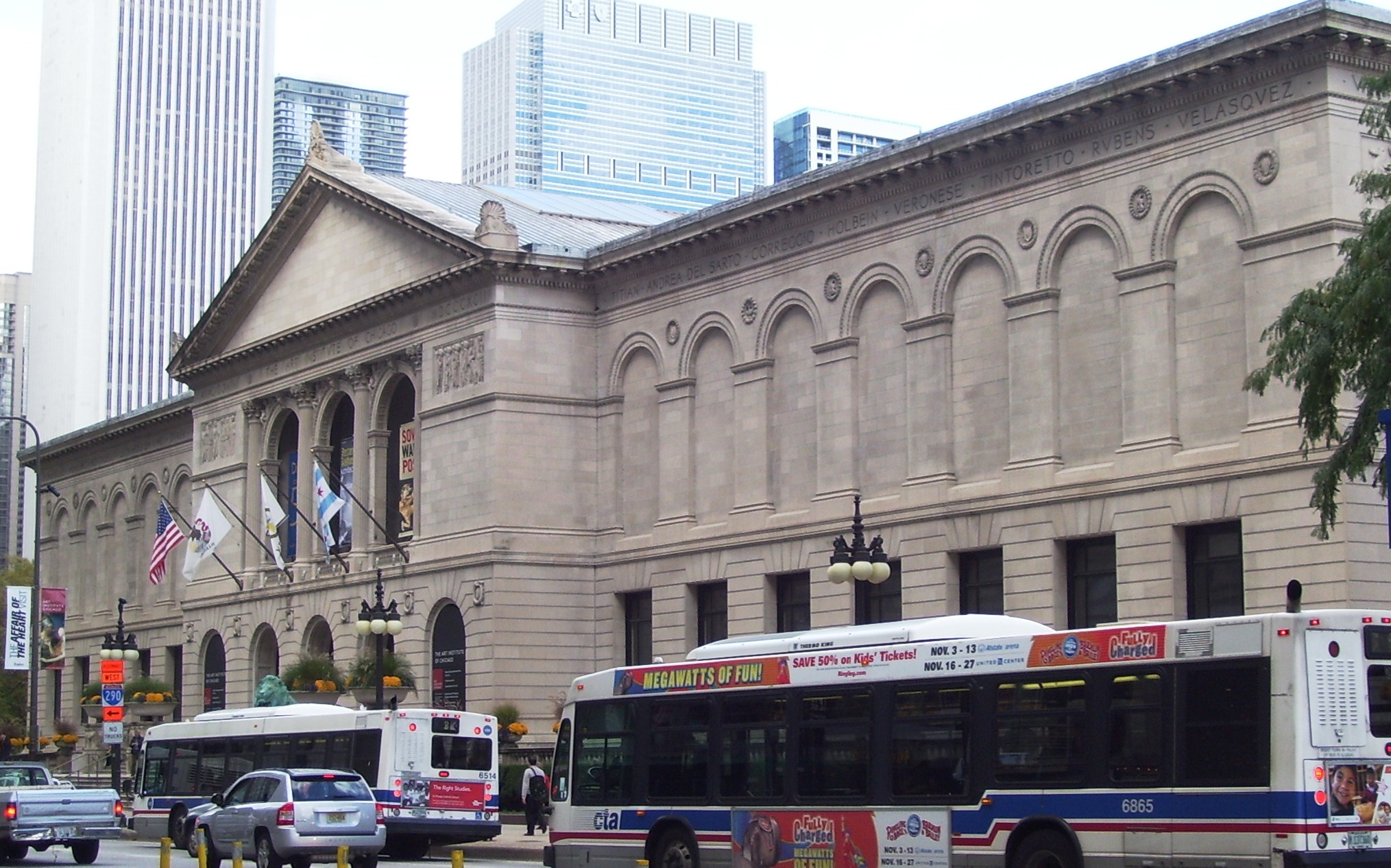 The main building of the Art Institute of Chicago.